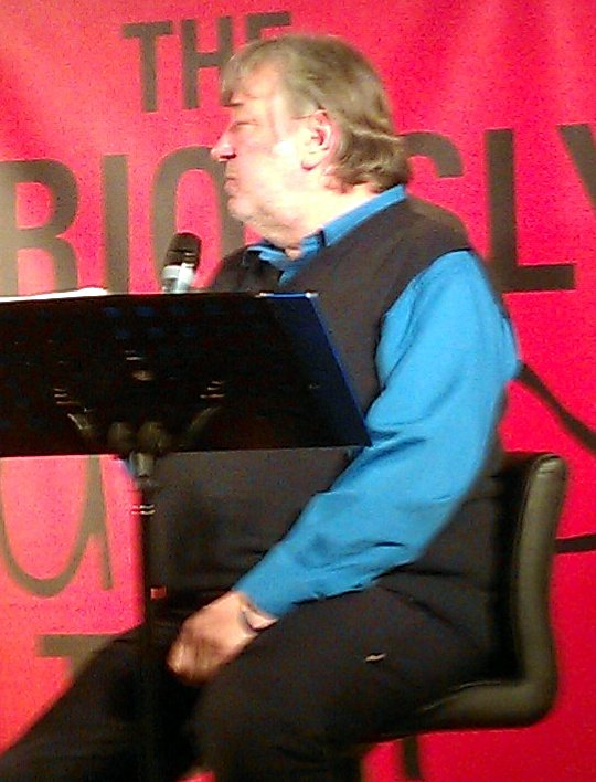 Adrian Plass speaking in Chertsey.